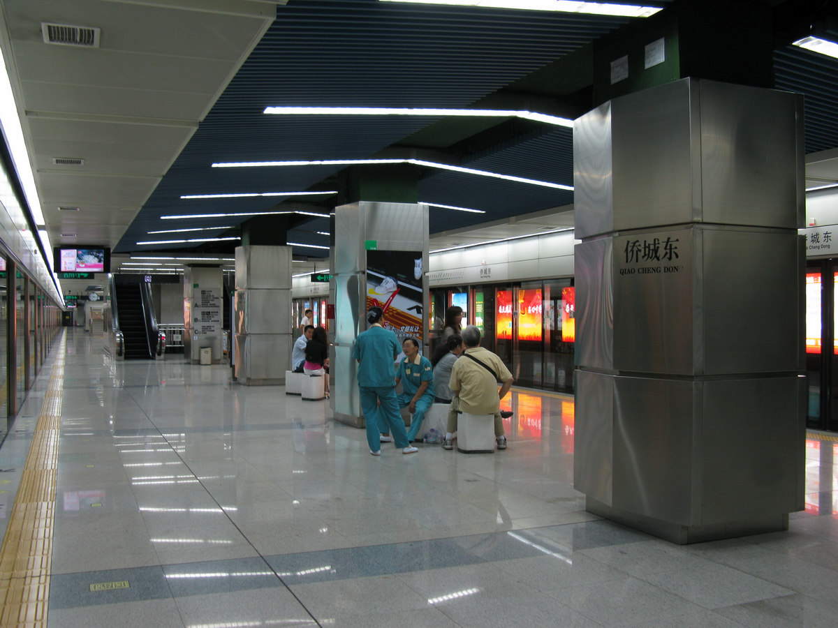 Line 1 Platform of Qiao Cheng Dong Station, Shenzhen Metro, view towards Zhu Zhi Lin Station